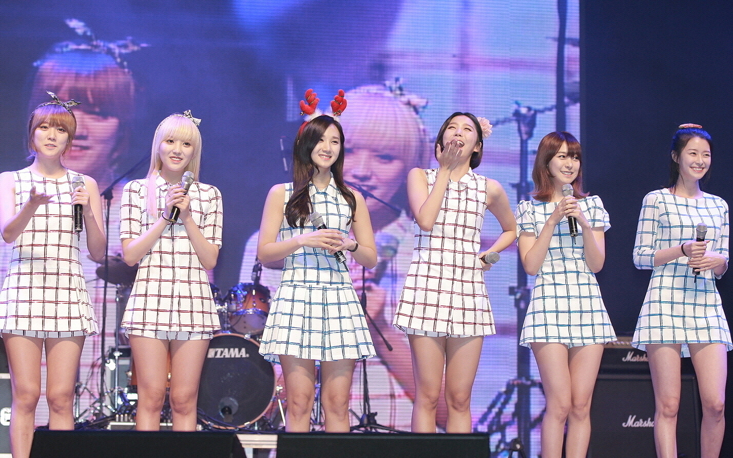 Hello Venus in December 2013